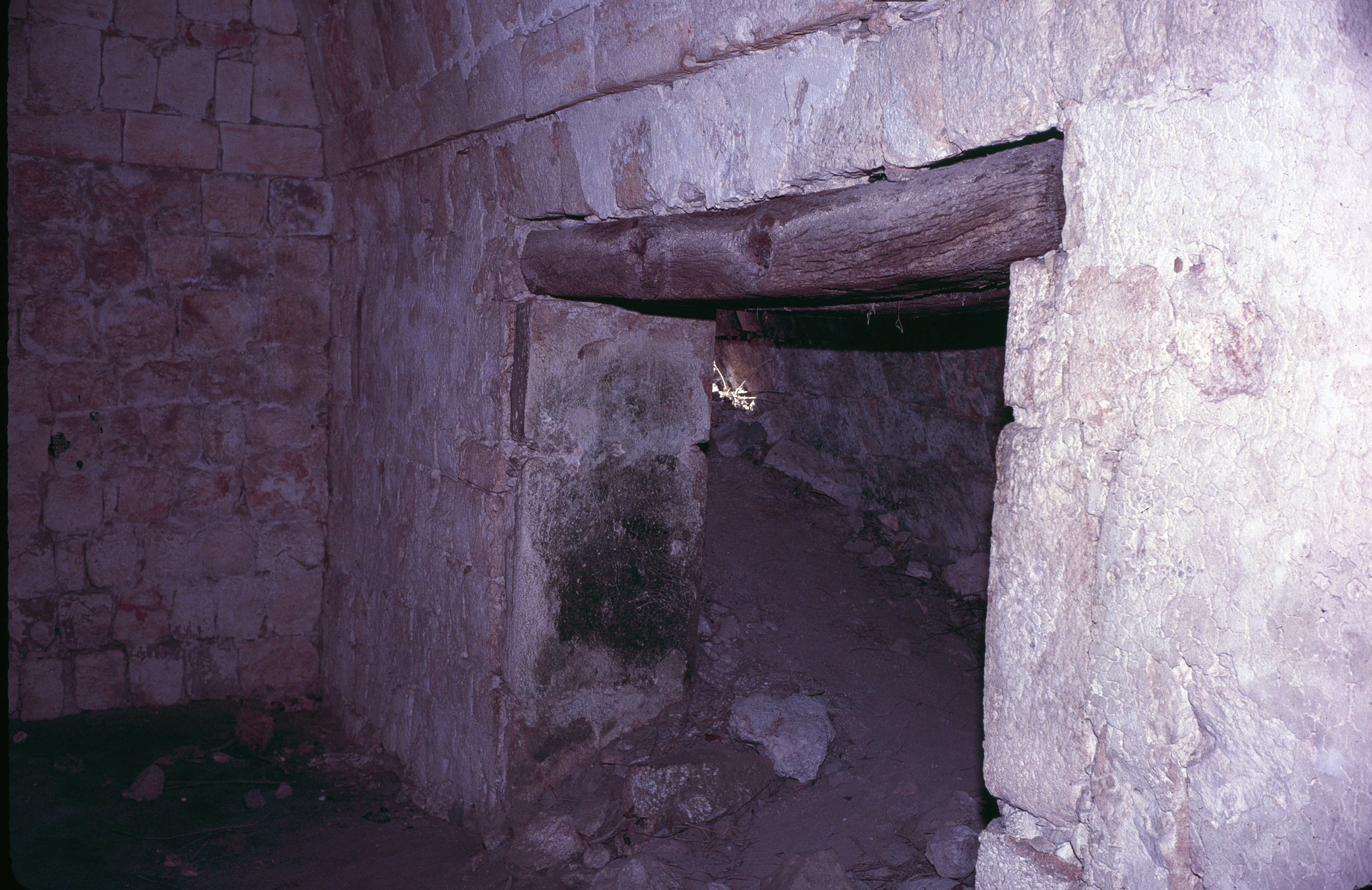 Uxmal, Yucatan, Mexico: building north of Casa de la Vieja